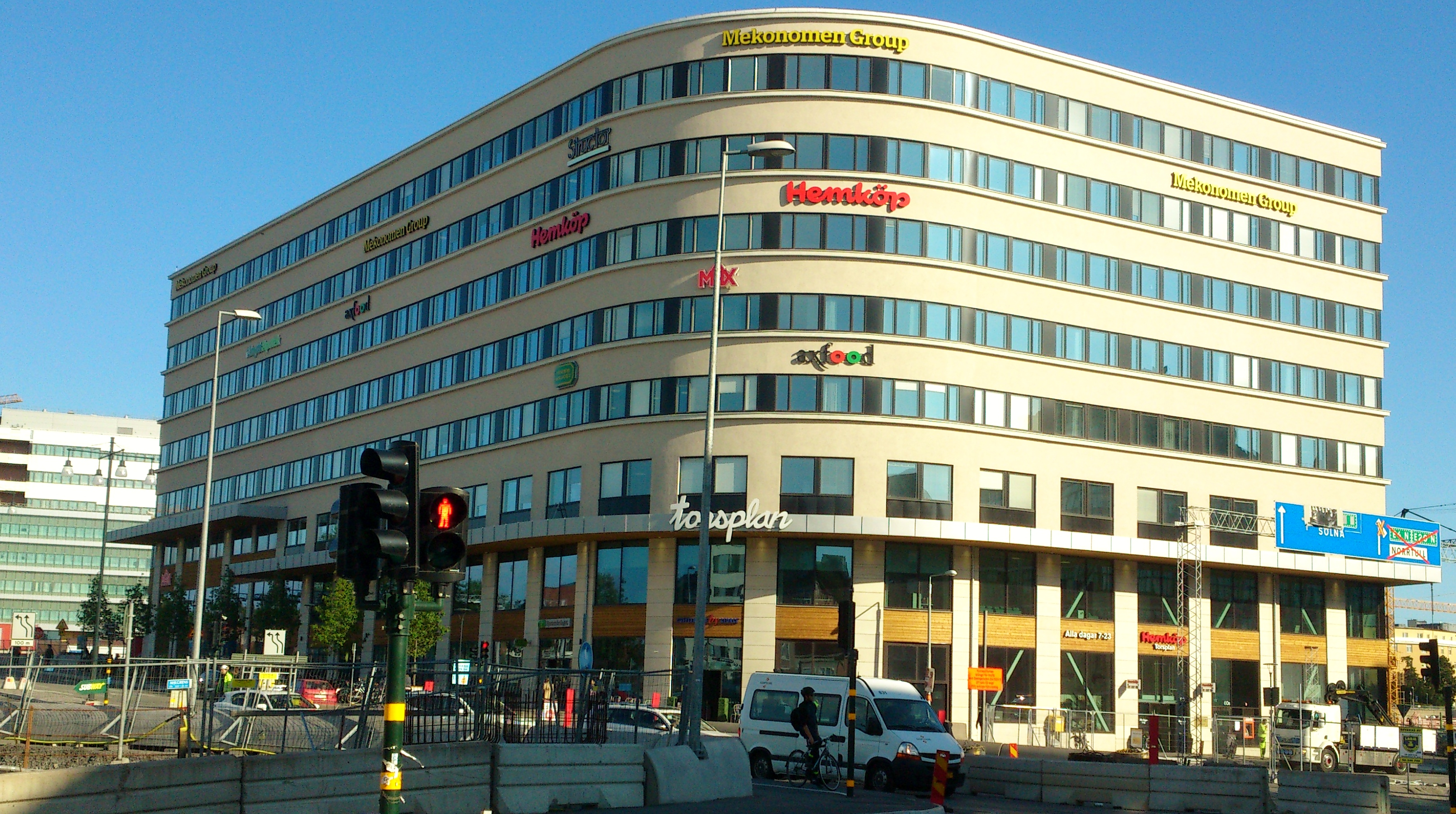 The headquarters of Axfood ABat Torsplan in Stockholm